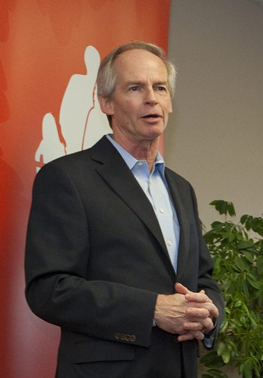 IFamily Care round table with Michael Ignatieff and candidate Lloyd St. Amand.